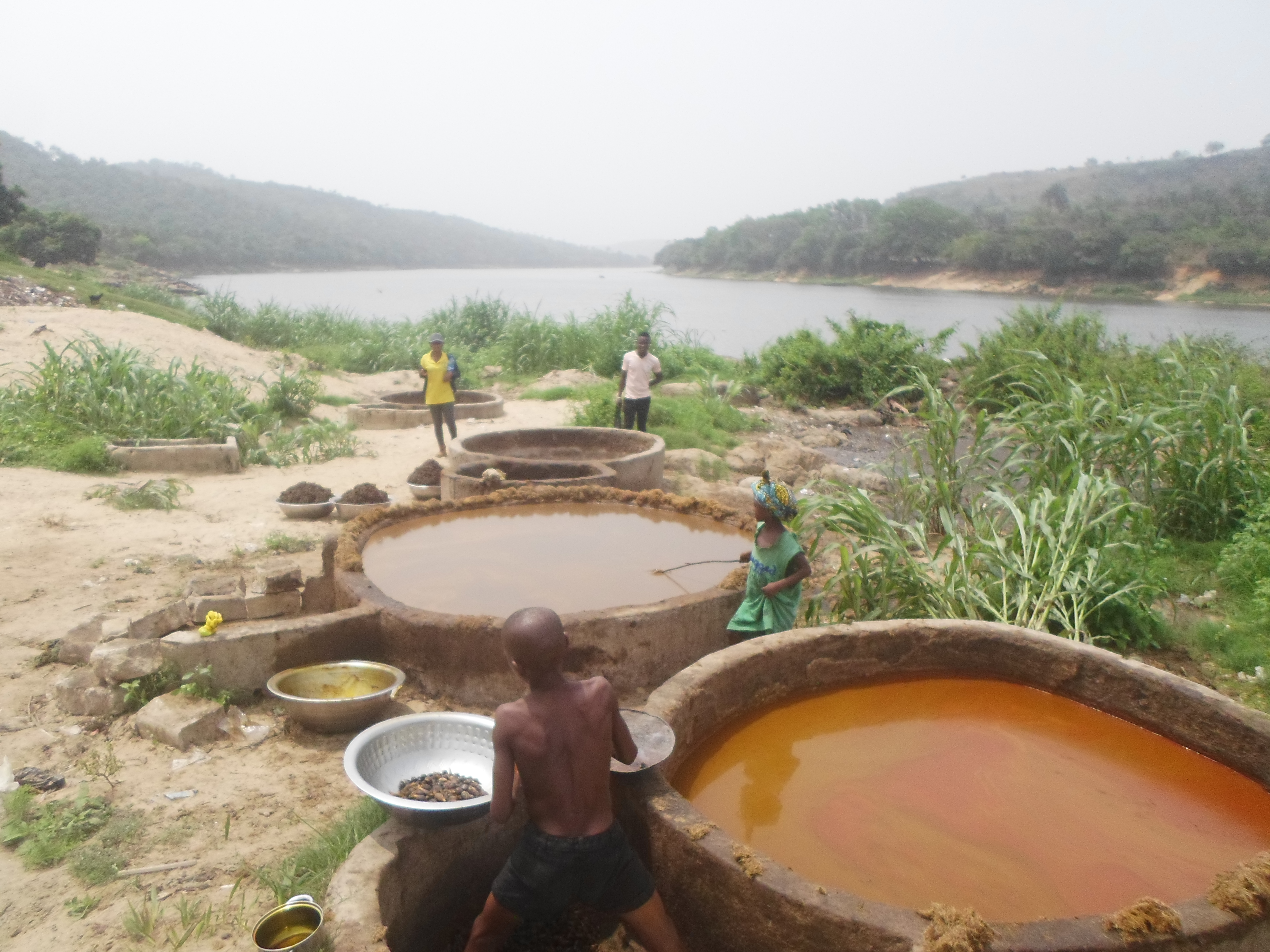 This is an image with the theme "Play" from: Nigeria